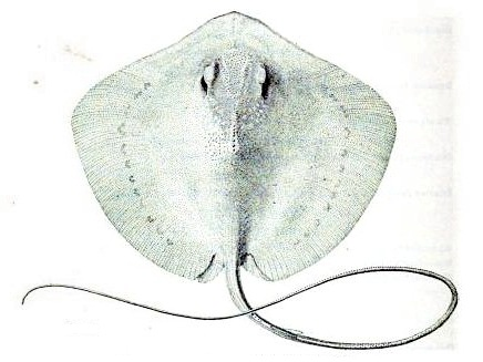 Illustration of a pink whipray (Himantura fai), accompanying original description.